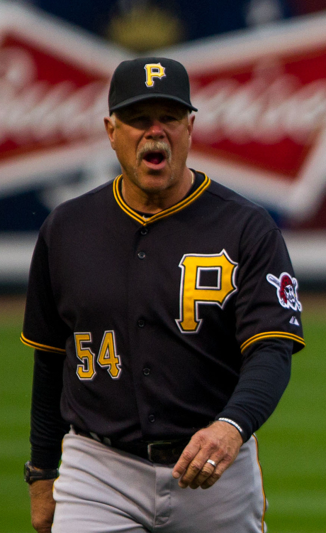 Ray Searage